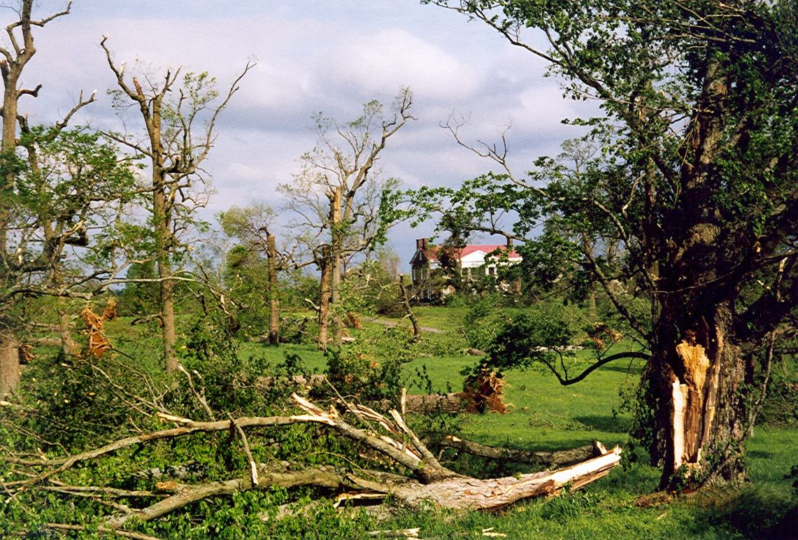 Photo of damage from the w:1998 Nashville tornado outbreak of the Tulip Grove Mansion, part of the Hermitage.